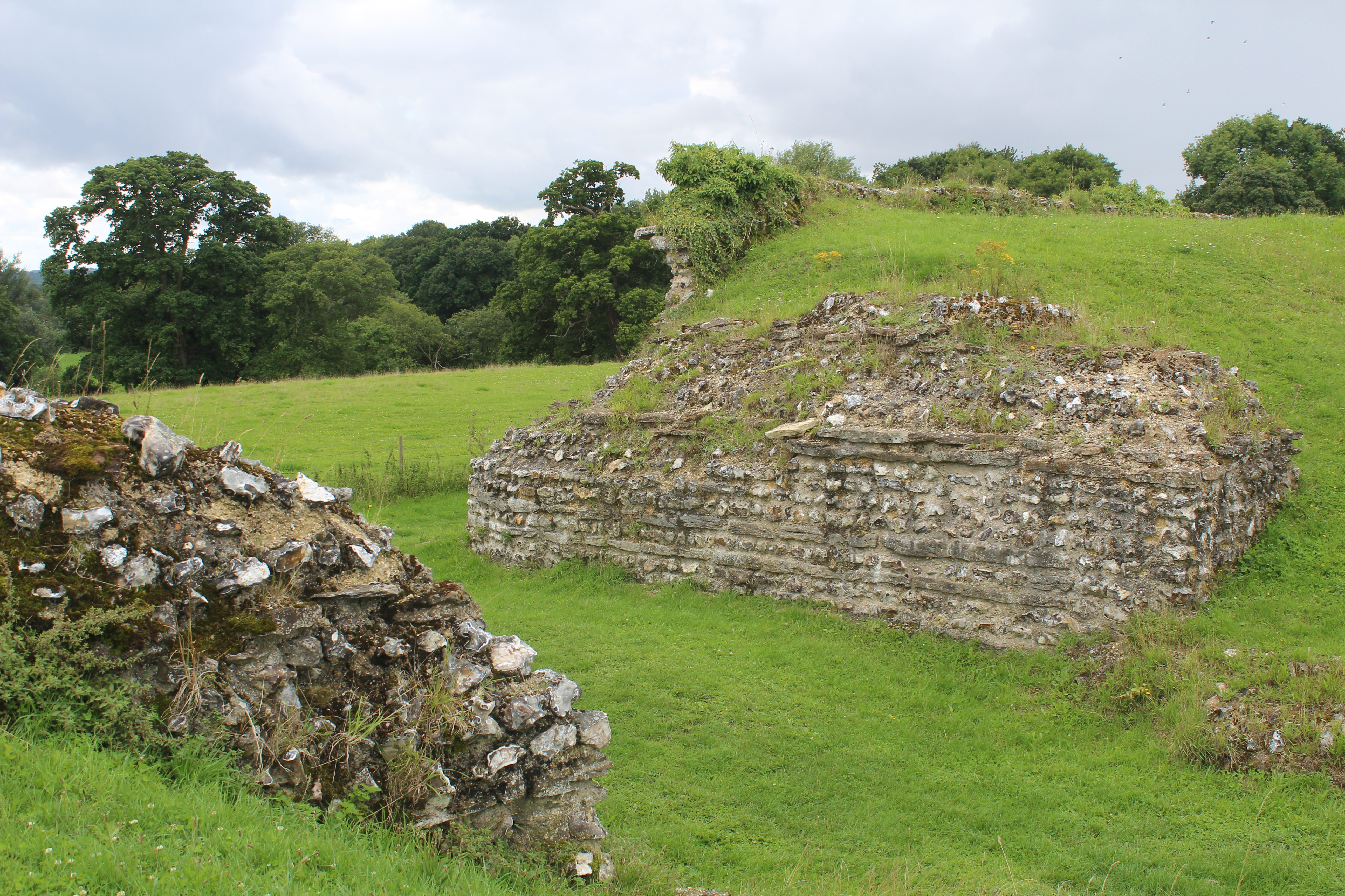 Remains of the South Gate of Calleva Atrebatum (near Silchester) taken from inside the city walls. The wall, which is now up to 4.5 metres high was once 7 metres high.